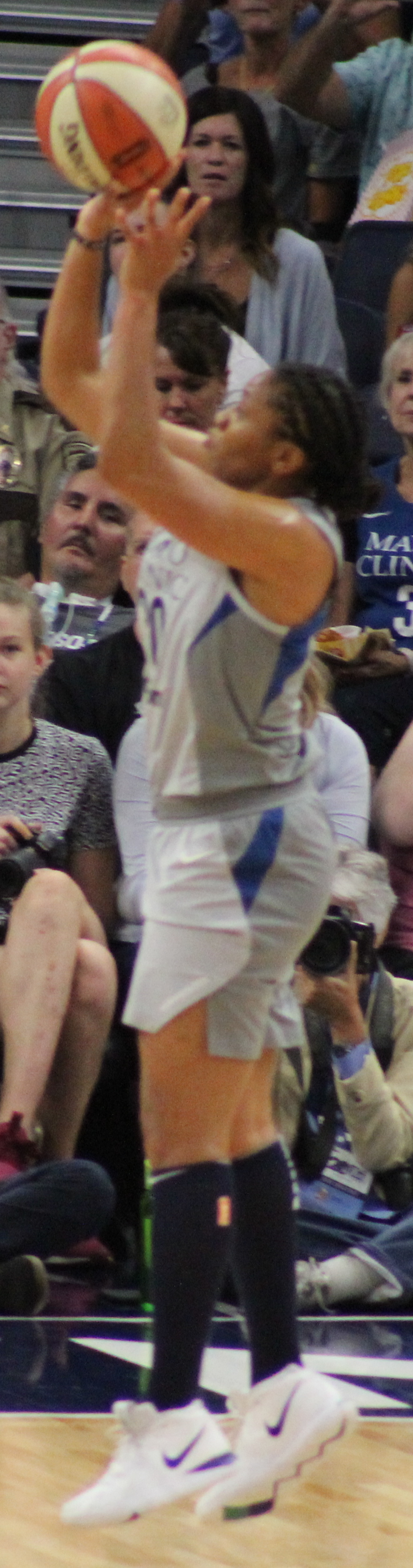 Tanisha Wright of the Minnesota Lynx